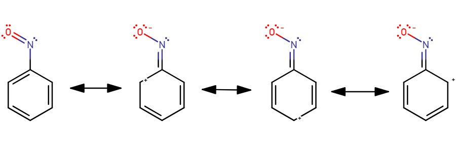 Nitrosobenzene can withdraw electron density through resonance.